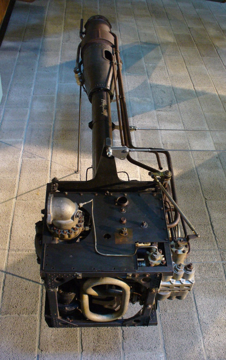 Walter HWK 109-509, early German rocket engine, used in Messerschmitt Me 163 rocket planes